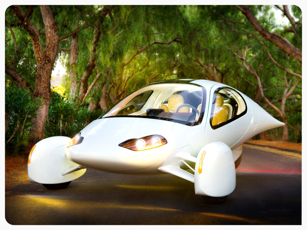 An image of the Aptera Typ-1